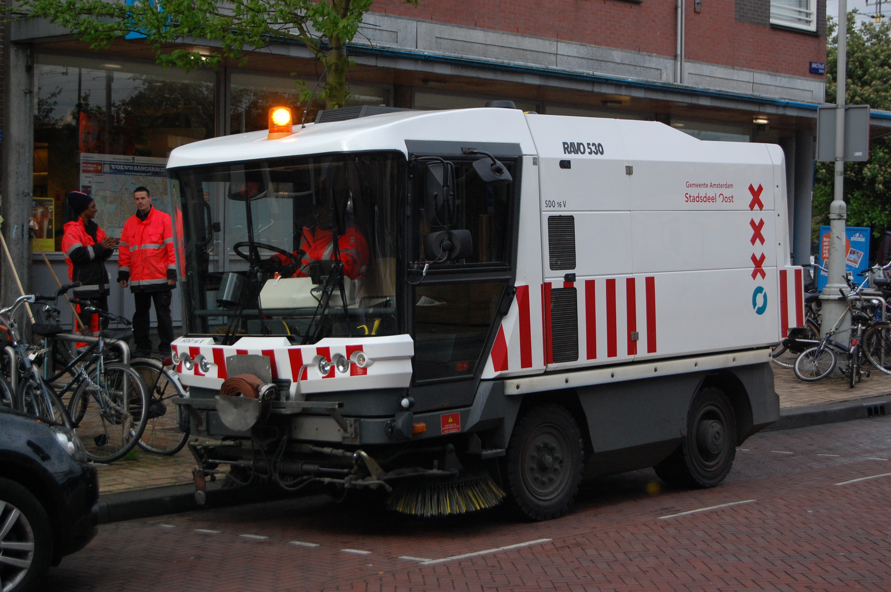 Amsterdam Council road sweeping vehicle, seen at Javastraat, in the Muiderpoort district.